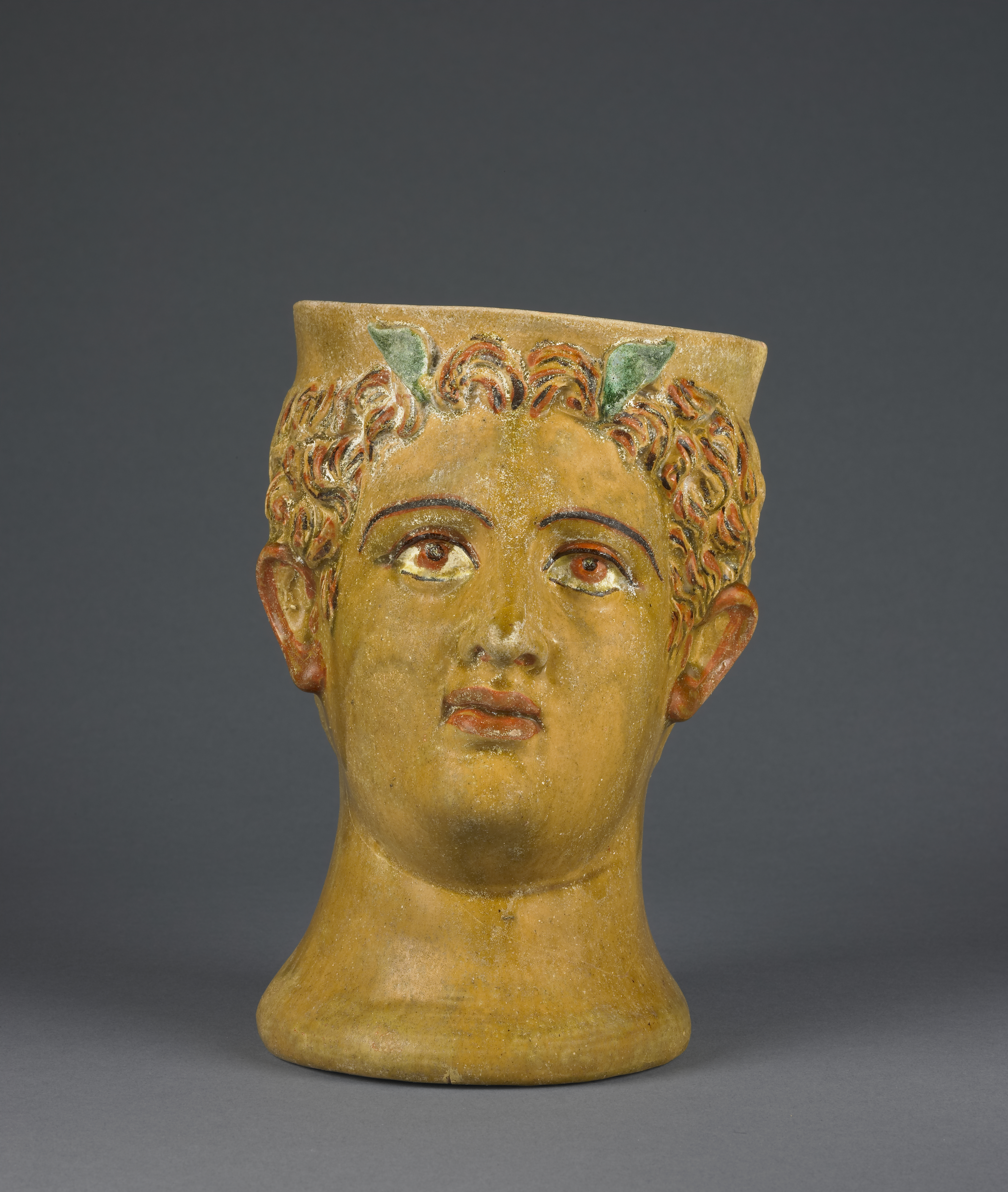 Title: Lead-Glazed Head Kantharos Artist/Maker(s): Likinnios (Greek, active 100 - 1 B.C.) Culture: Greek Place(s): Asia Minor (Place created) Date: 1st century B.C. Medium: Terracotta Dimensions: 19 x 12.2 cm (7 1/2 x 4 13/16 in.) Signed: Stamped in Greek Translated: "[work] of Likinnios". Department: Antiquities Classification: Vessels Object Type: Plastic vase Object Number: 83.AE.40 The J. Paul Getty Museum, Villa Collection, Malibu, California.